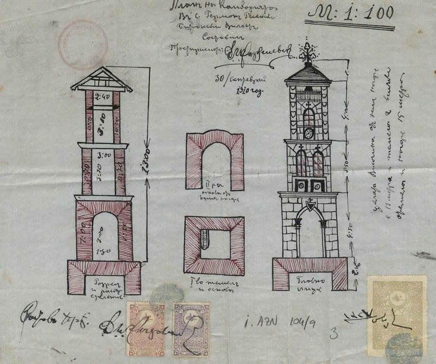 Plan of the Bell Tower of Bulgarian Saint Germanus Church (today Agios Germanos) approved by Ottoman Authorities in 1910